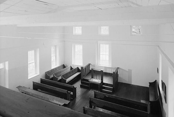 First Associate Reformed Presbyterian Church, interior, State Route 213, Jenkinsville vicinity (Fairfield County, South Carolina) - cropped This file comes from the Historic American Buildings Survey (HABS), Historic American Engineering Record (HAER) or Historic American Landscapes Survey (HALS). These are programs of the National Park Service established for the purpose of documenting historic places. Records consist of measured drawings, archival photographs, and written reports. When reusing please credit: Library of Congress, Prints & Photographs Division, SC,20-MONT.V,1-15 This tag does not indicate the copyright status of the attached work. A normal copyright tag is still required. See Commons:Licensing. This work is in the public domain in the United States because it is a work prepared by an officer or employee of the United States Government as part of that person’s official duties under the terms of Title 17, Chapter 1, Section 105 of the US Code. Note: This only applies to original works of the Federal Government and not to the work of any individual U.S. state, territory, commonwealth, county, municipality, or any other subdivision. This template also does not apply to postage stamp designs published by the United States Postal Service since 1978. (See § 313.6(C)(1) of Compendium of U.S. Copyright Office Practices). It also does not apply to certain US coins; see The US Mint Terms of Use. This file has been identified as being free of known restrictions under copyright law, including all related and neighboring rights. This image or media file contains material based on a work of a United States Department of the Interior employee, created as part of that person's official duties. As a work of the U.S. federal government, such work is in the public domain in the United States. See the Department of the Interior copyright policy for more information.